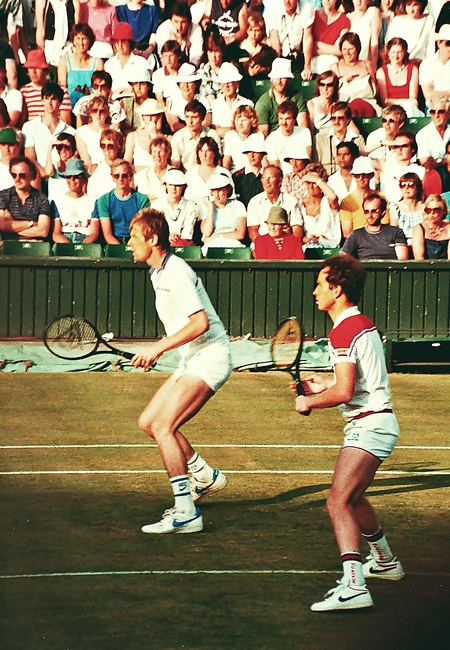 Peter Fleming and John McEnroe playing Wimbledon Men's Doubles in the early to mid 1980s.